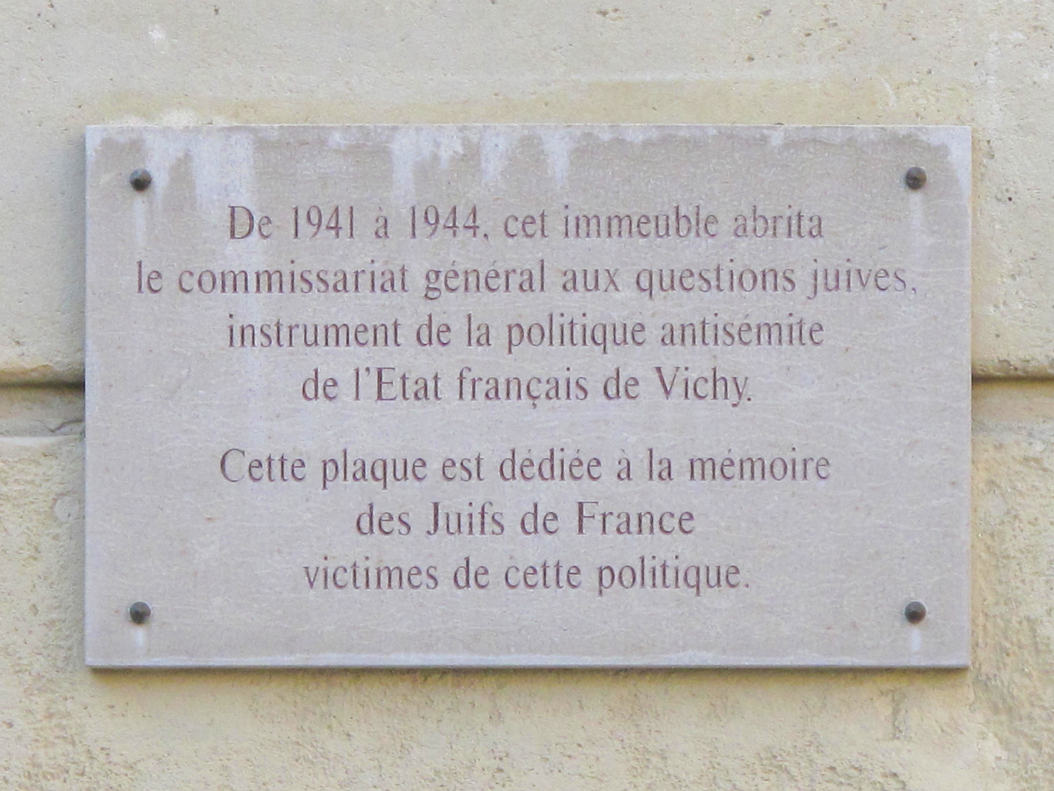 Plaque on the building where was during WWII by the "Commissariat-General for Jewish Affairs", who defined and applied the antisemit laws in France : 1, place des Petits-Pères, Paris 2nd arr.